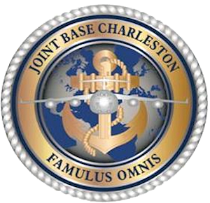 Joint Base Charleston - Emblem